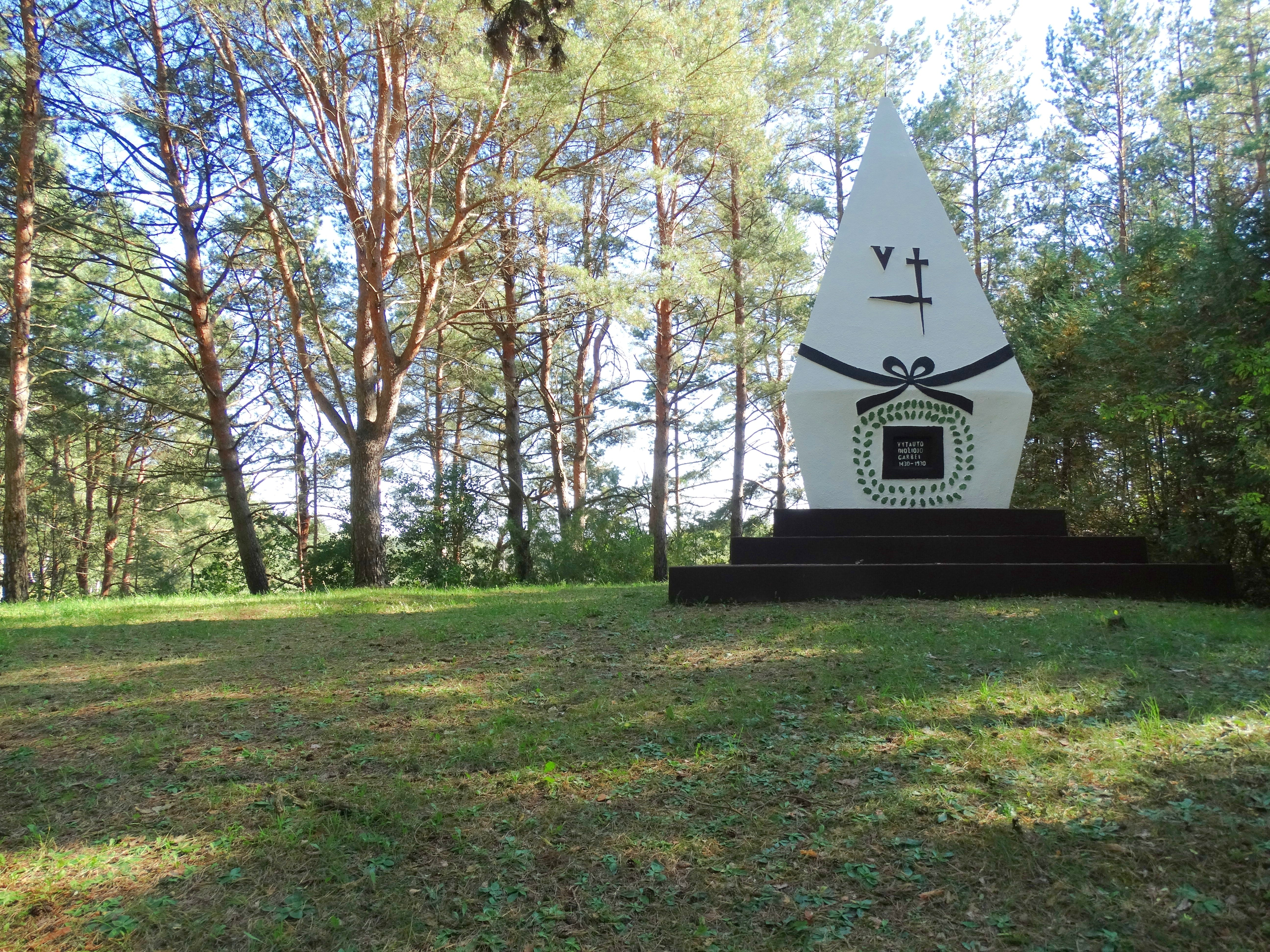 Vytautas the Great monument by Vyžuonos, Utena District, Lithuania